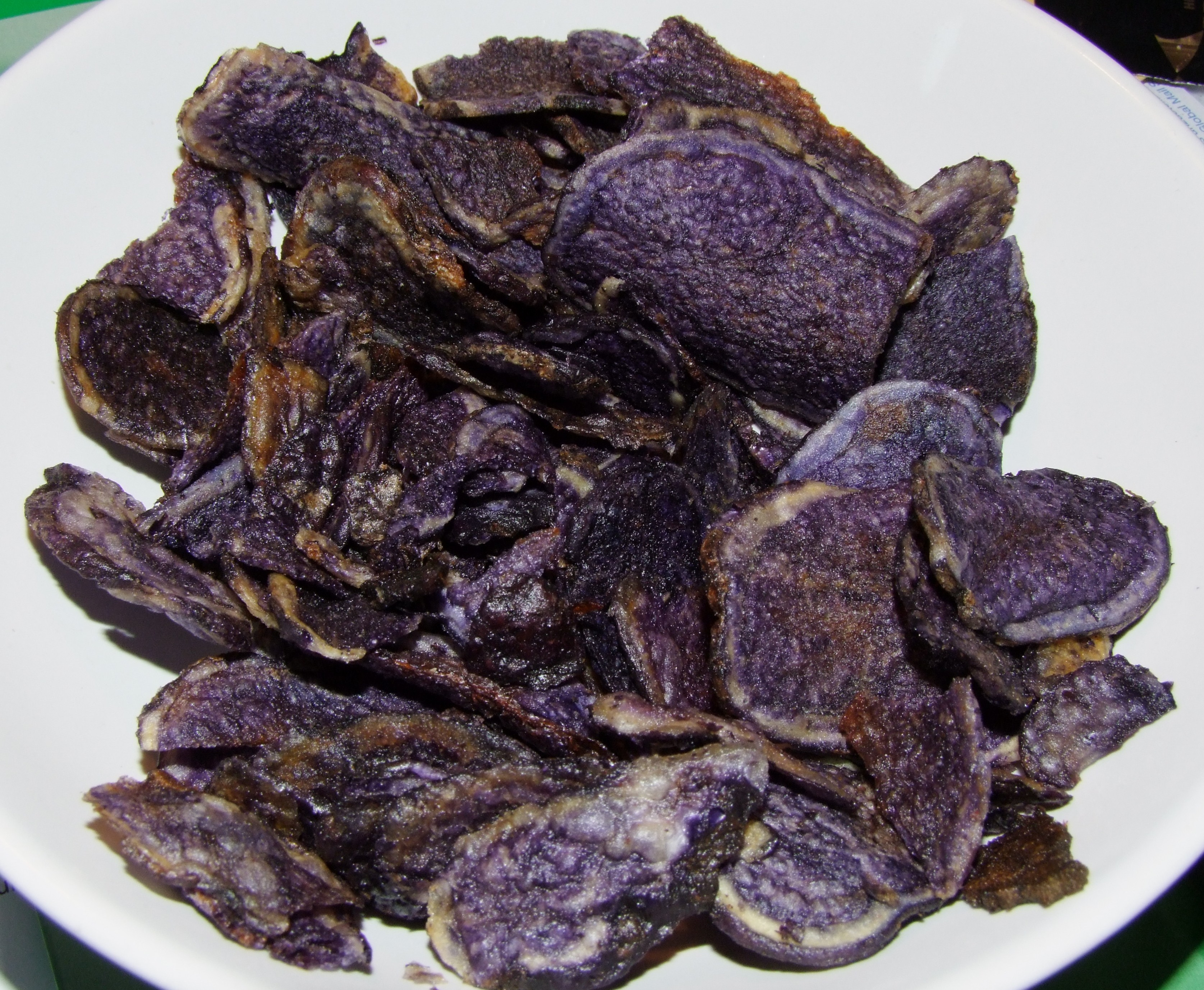 Vitelotte-crips in a dish